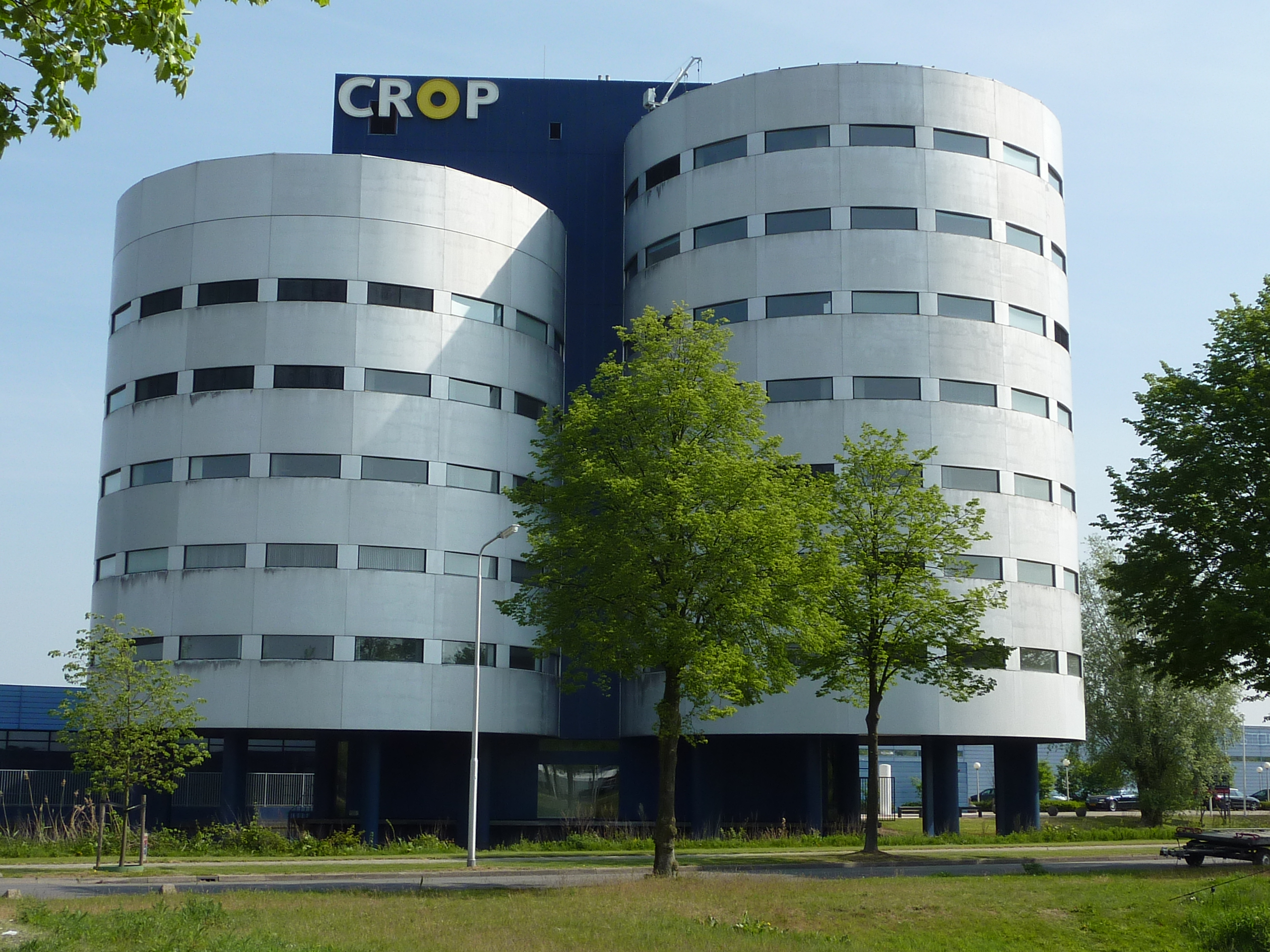 Fläkt Main office designed in 1974 by architect Peter Gerssen